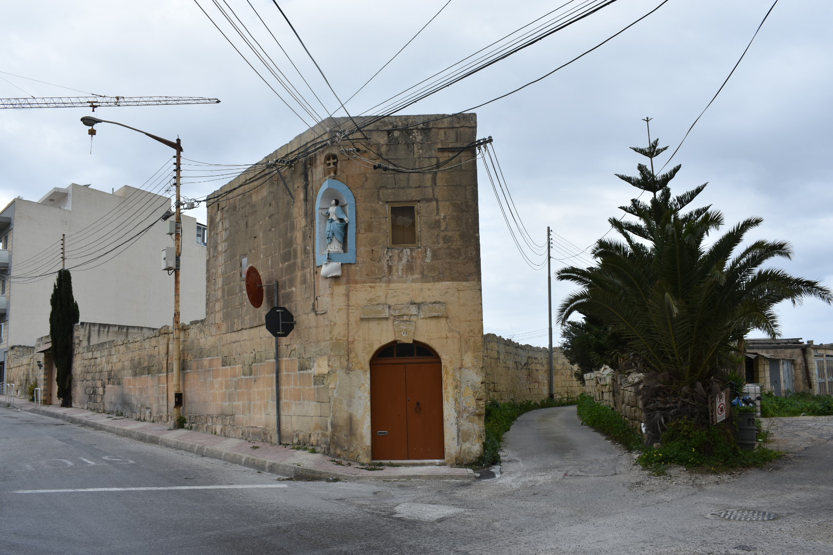 Mosta